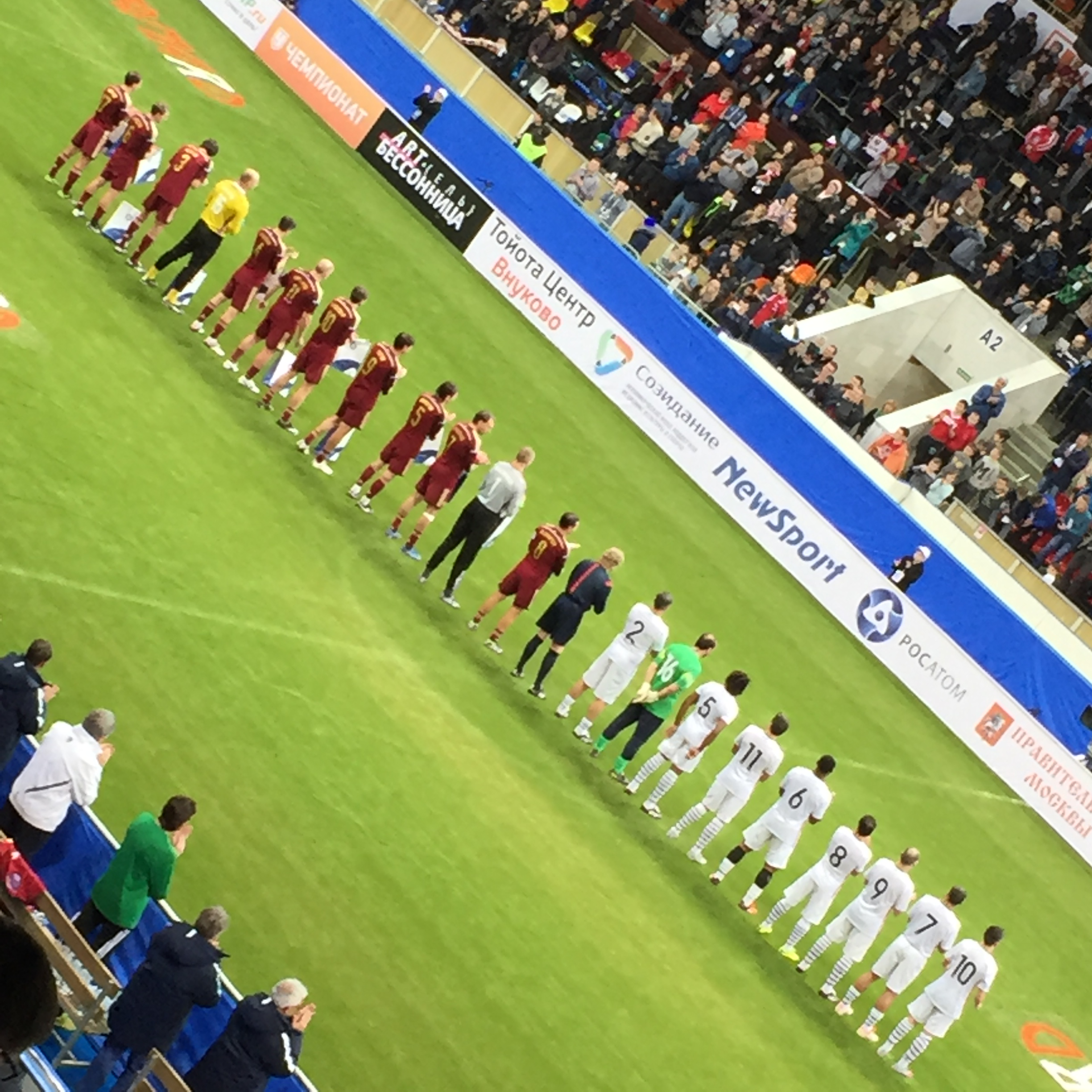 Yearly football tournament held Russia. Finely game Russia vs France. Moscow Luzhniki.